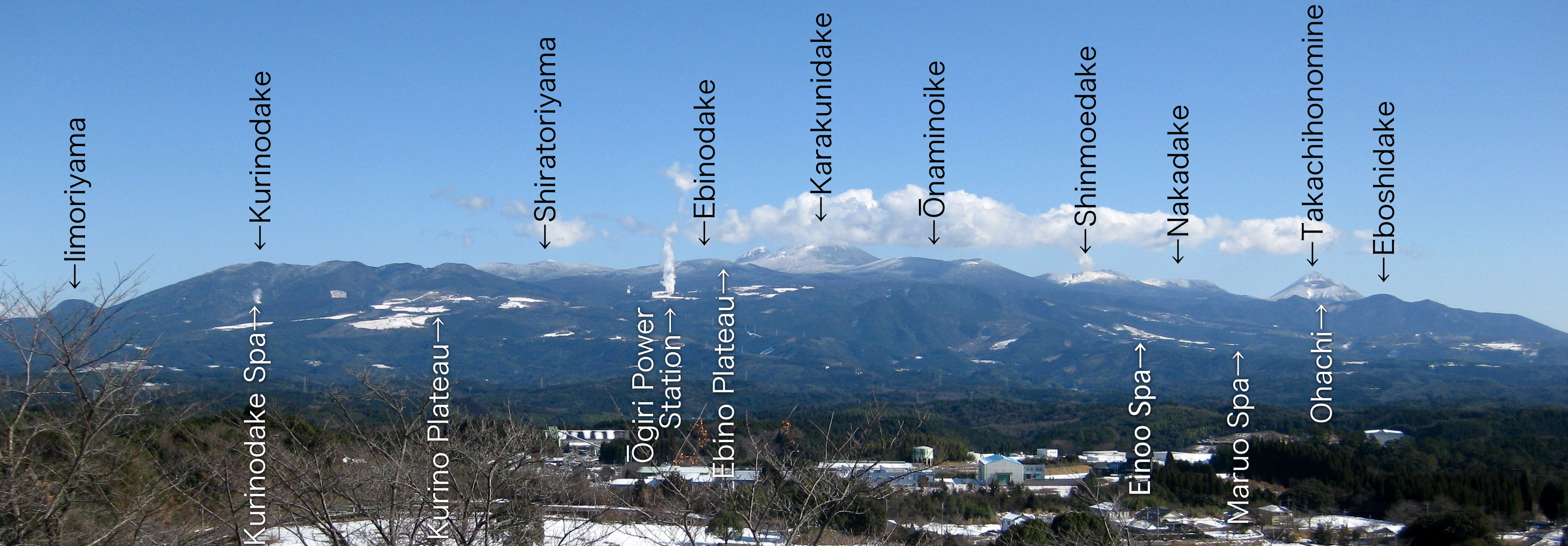 Kirishima Mountains from Maruoka of Yokogawa in Kagoshima, Japan